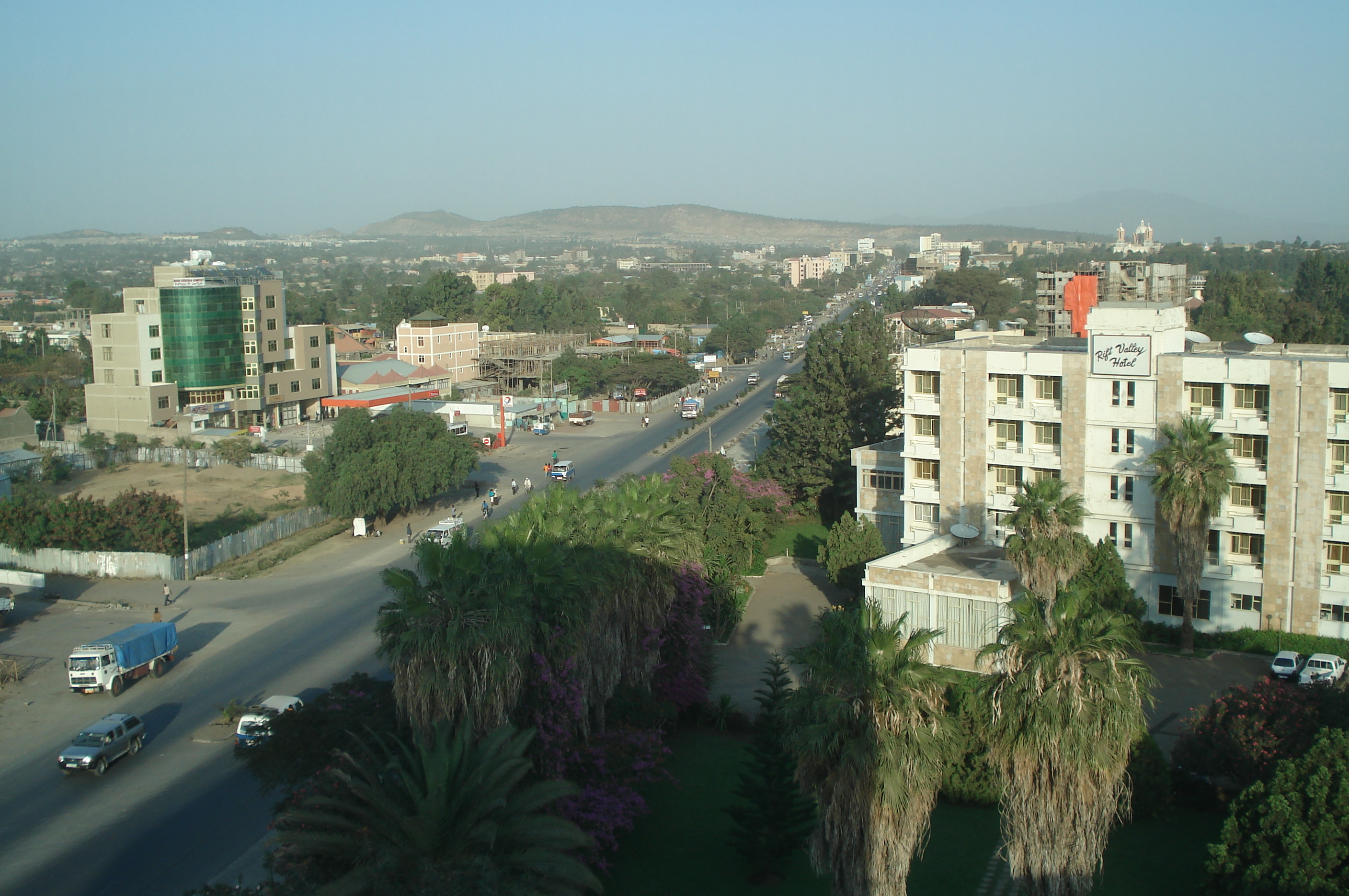 January 11, 2010. Adama (Nazareth), Ethiopia. View along the Addis Ababa-Dire Dawa Road. Taken from Adama Executive Hotel.